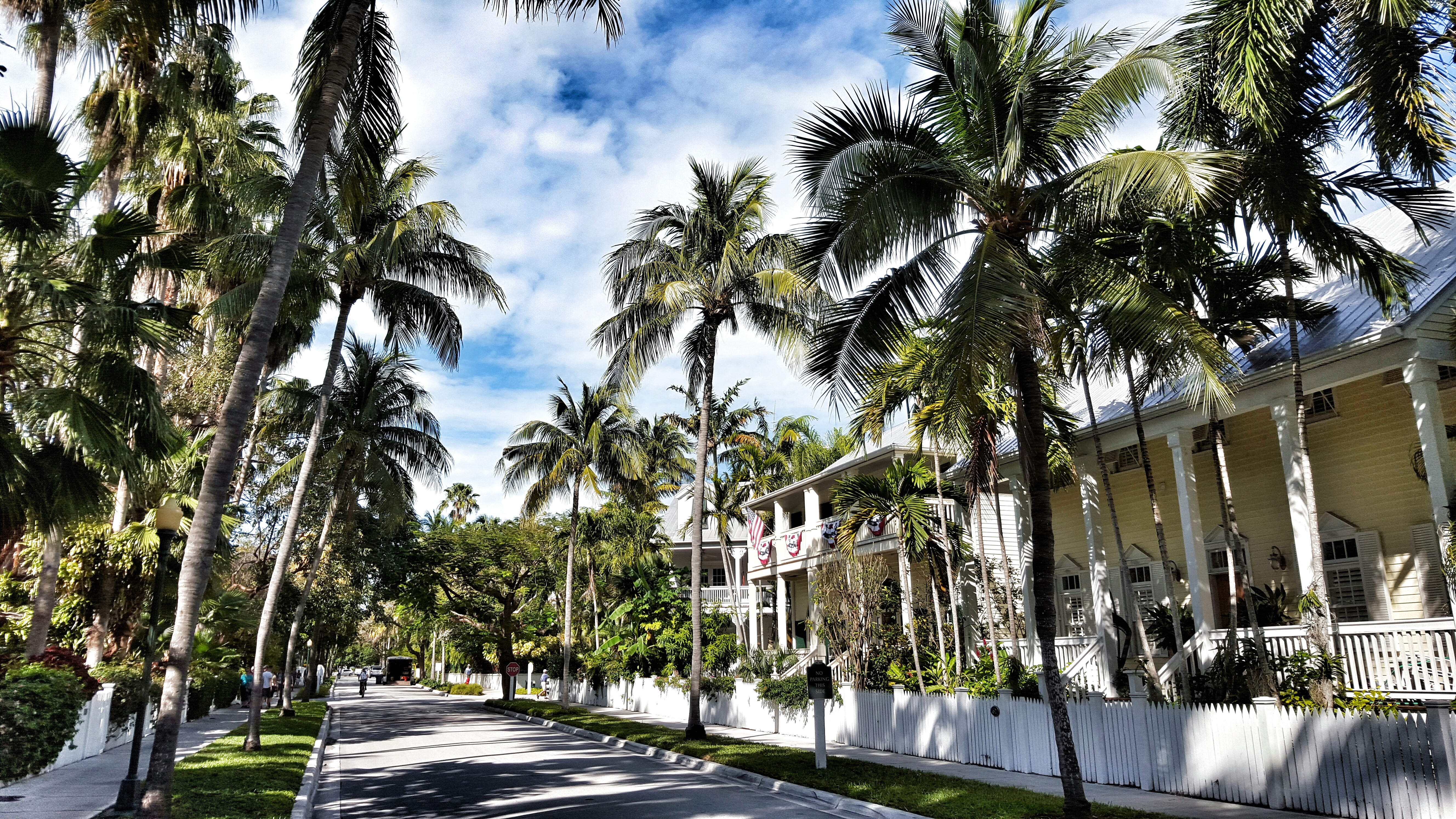 Palm-lined Key West Road